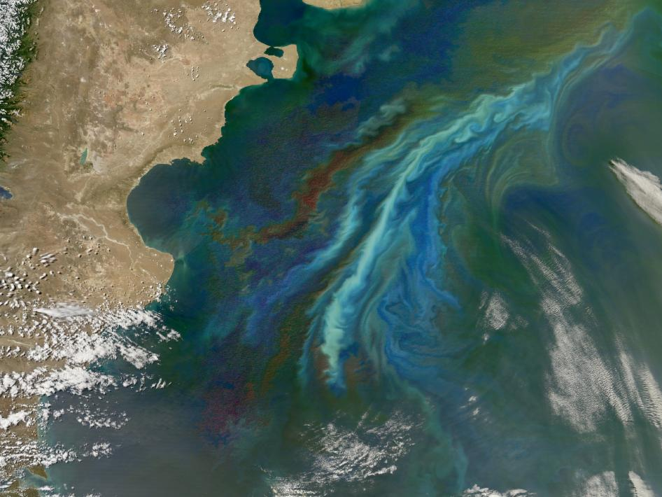 Off the coast of Argentina, two strong ocean currents recently stirred up a colorful brew of floating nutrients and microscopic plant life just in time for the Southern Hemisphere's summer solstice. The Moderate Resolution Imaging Spectroradiometer on NASA's Aqua satellite captured this image of a massive phytoplankton bloom off of the Atlantic coast of Patagonia on Dec. 21, 2010. Scientists used seven separate spectral bands to highlight the differences in the plankton communities across this swath of ocean.